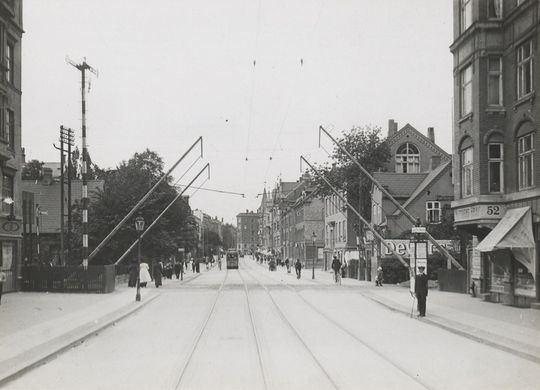 Railway crossing where the North and Klampenborg Lines crossed H. C. Ørstedsgade on their way North in Copenhagen, Denmark